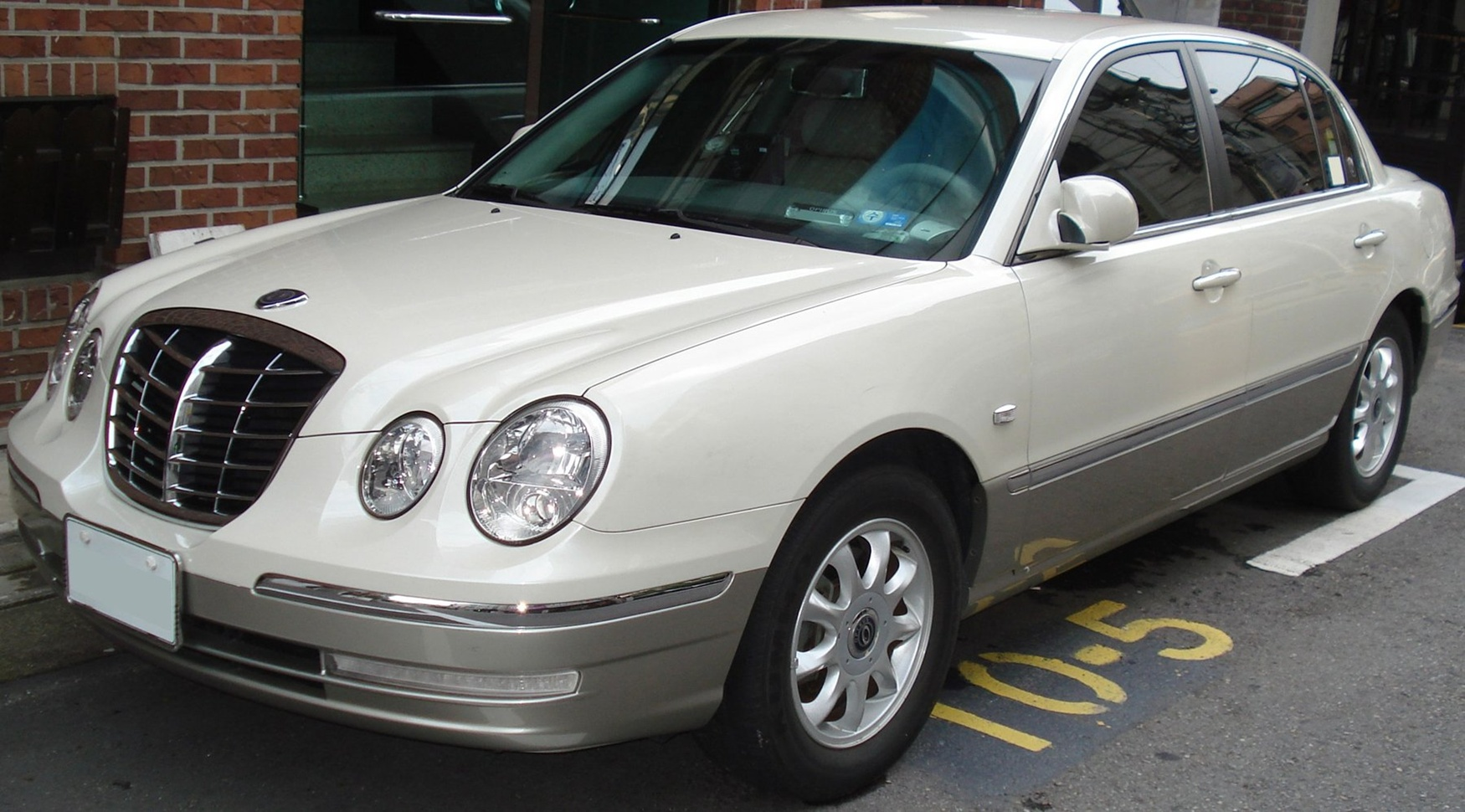 Kia Opirus